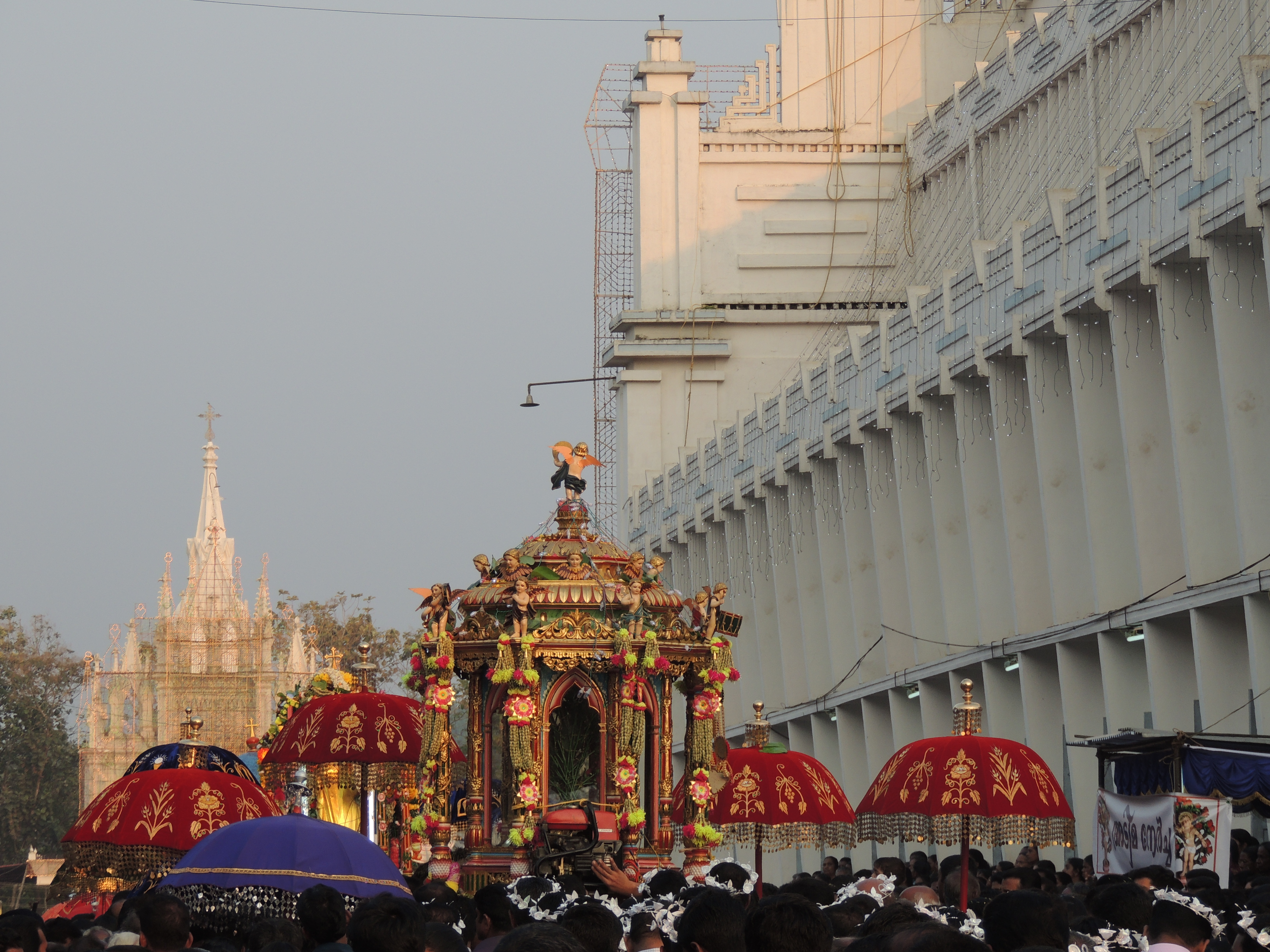 Procession,St. Sebastian's Feast at St.Mary's Church Athirampuzha, Kottayam, Kerala state, India.